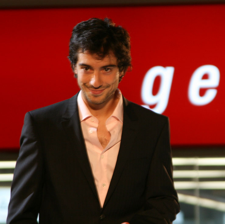 Austrian actor Stefano Bernardin; Jeannine Schillers charity-fashion show at the Donauzentrum in Vienna